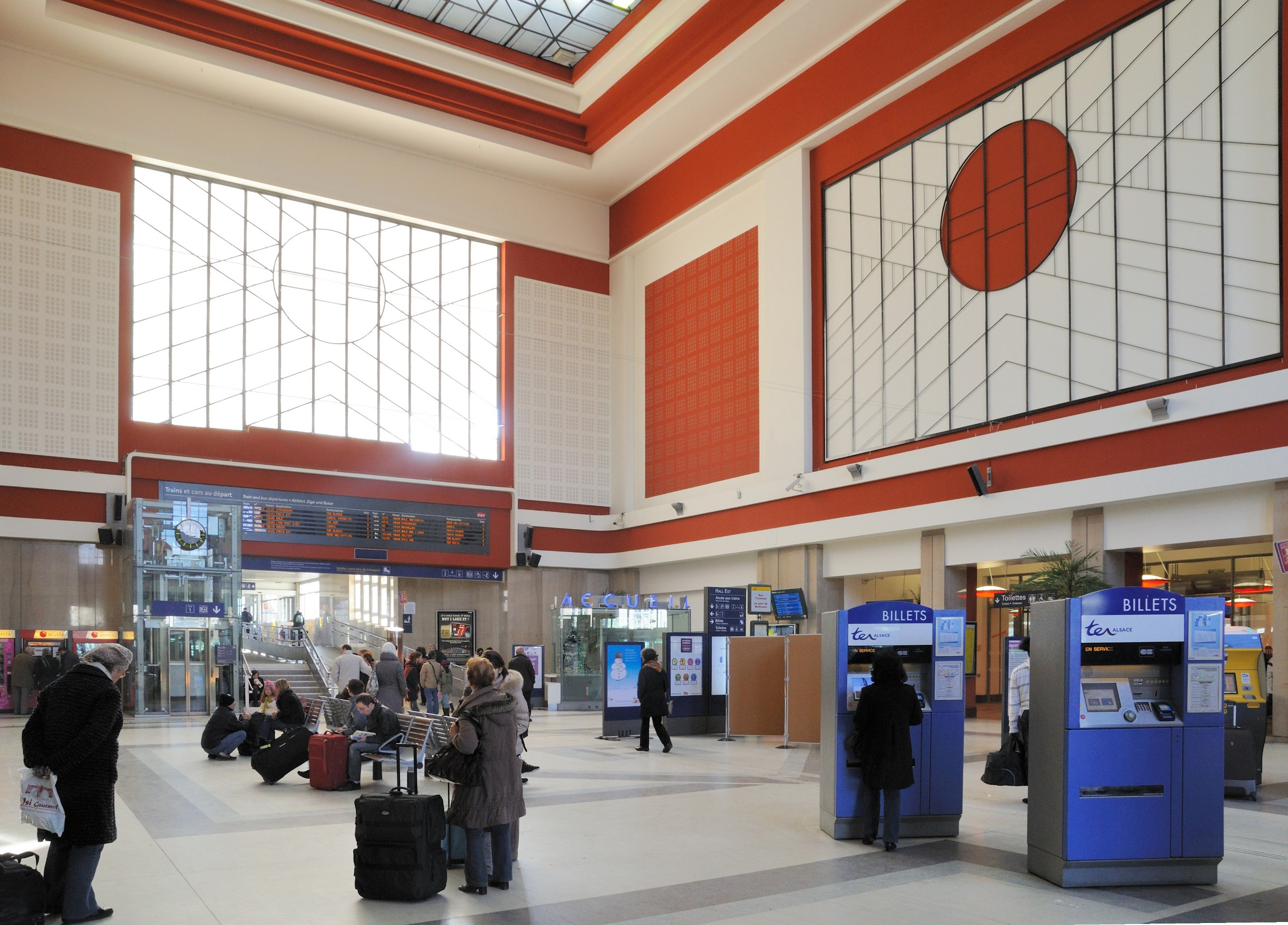 Mulhouse: Railway station (departure hall).